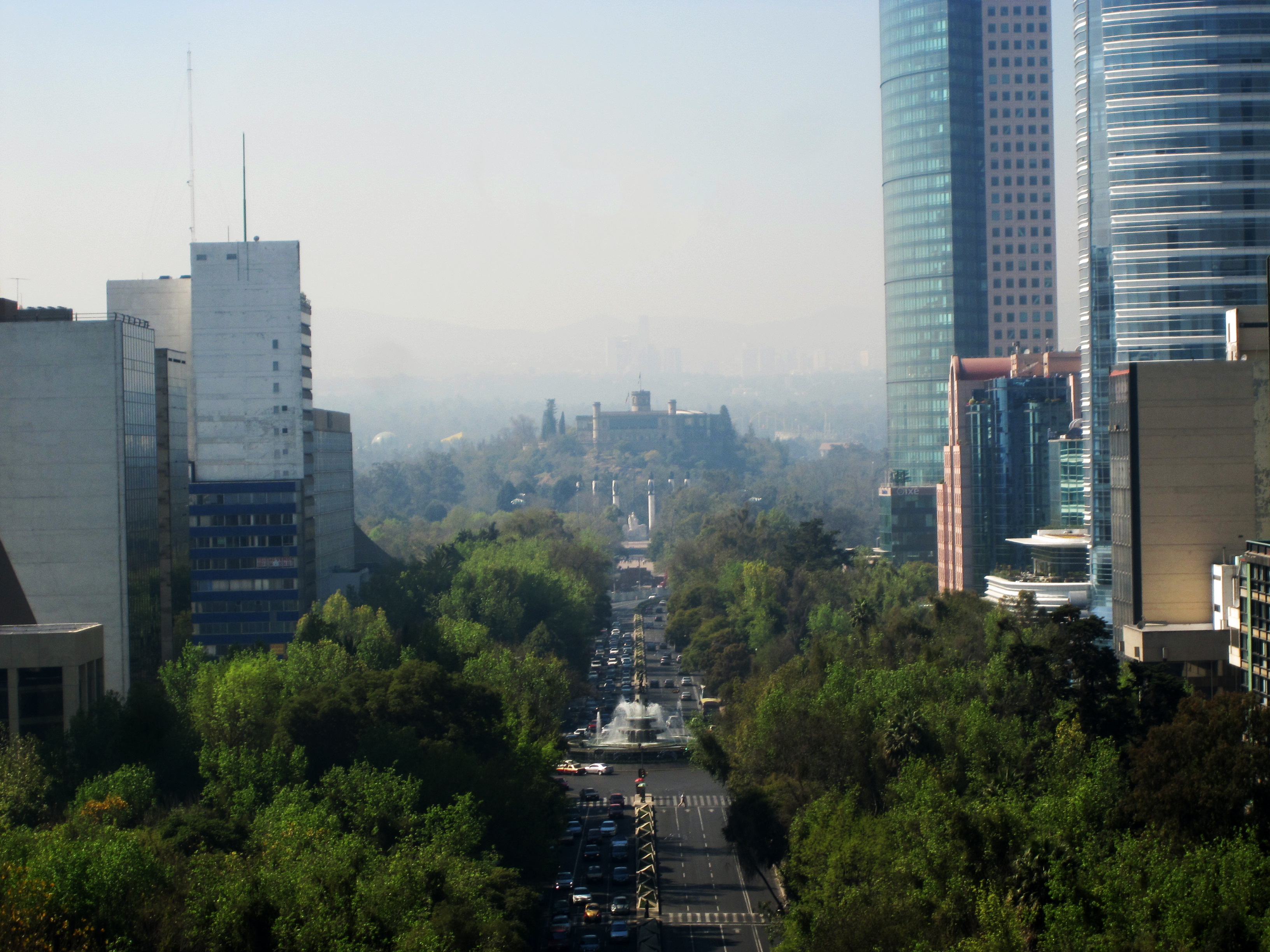 Paseo de la Reforma and the Chapultepec Castle seen from El Ángel de la Independencia